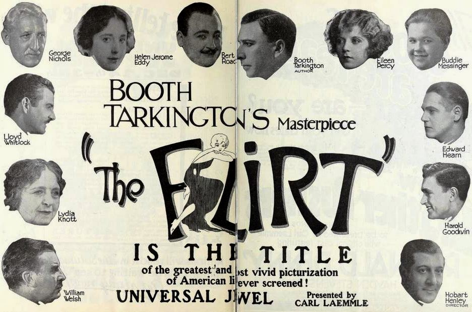 Advertisement for the American comedy film The Flirt (1922) with George Nichols, Lloyd Whitlock, Lydia Knott, William Welsh, Helen Jerome Eddy, Bert Roach, author Booth Tarkington, Eileen Percy, Buddy Messinger, Edward Hearn, Harold Goodwin, and director Hobart Henley, on pages 2 and 3 of the December 2, 1922 Universal Weekly.